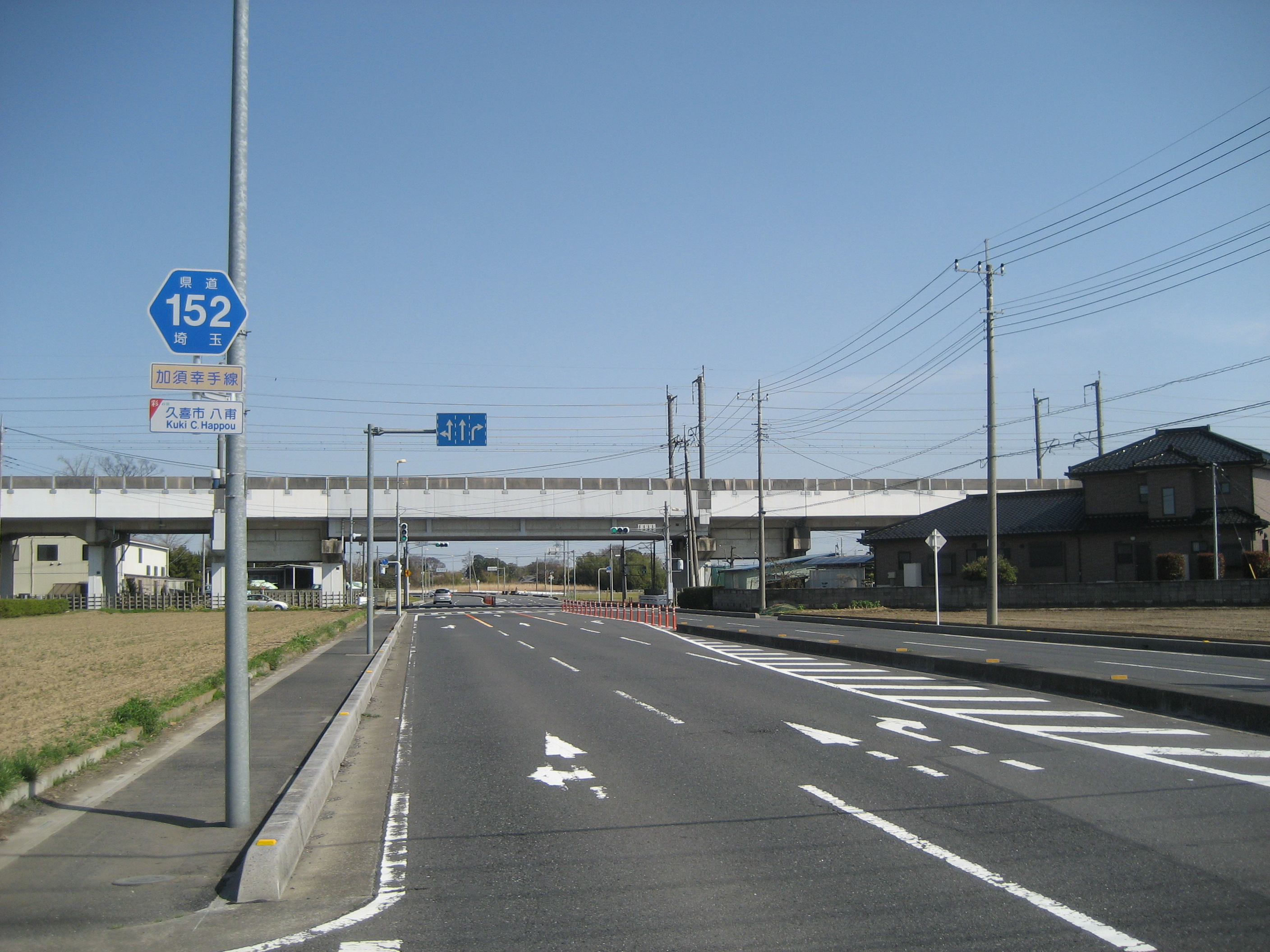 The Saitama Prefectural Road Route 152 in Happo, Kuki City